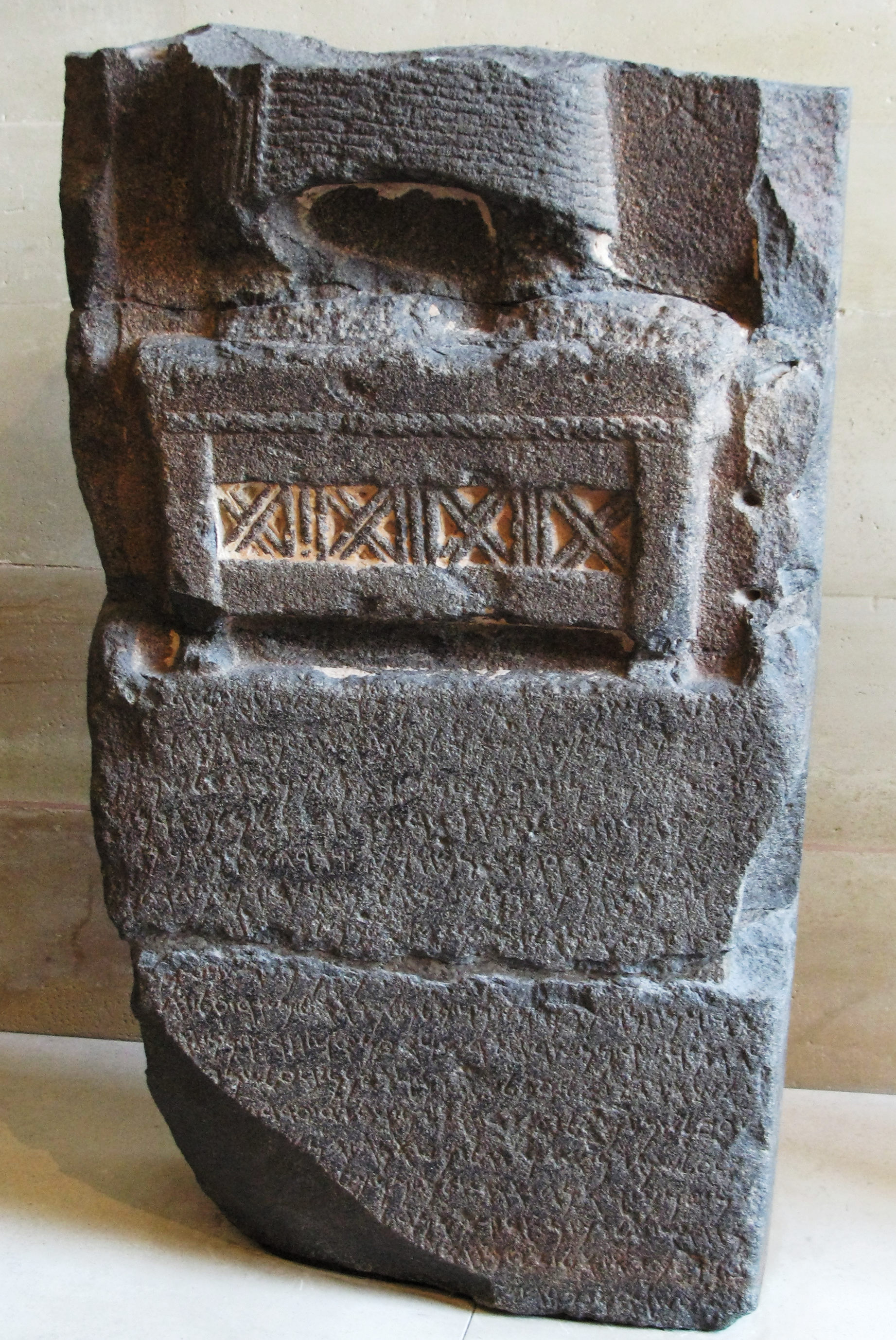 ArtistUnknownDescription Zakkur stele . Marks the taking of the throne of Hamath by king Zakkur Then, I lifted my hands towards Ba`al Shamîm, and Baal Shamaïn talked to me through seers, and Baal Shamaïn told me "do not fear! for it is me who made you reign and it is me who shall stand by your side, and it is me who shall free you from all the kings who besiege you [1] Dimensions13 cm high, 62 cm wideCurrent location (Inventory)Louvre Museum Native nameMusée du LouvreLocationParisCoordinates48° 51′ 37″ N, 2° 20′ 15″ E Established1793Website control : Q19675 VIAF: 257711507 ISNI: 0000 0001 2260 177X ULAN: 500125189 LCCN: n80020283 NLA: 35912436 WorldCat Sully Rez-de-chaussée Levant Salle CAccession numberAO 8185 Credit lineBought in 1922Source/PhotographerRama Zakkur stele . Marks the taking of the throne of Hamath by king Zakkur Then, I lifted my hands towards Ba`al Shamîm, and Baal Shamaïn talked to me through seers, and Baal Shamaïn told me "do not fear! for it is me who made you reign and it is me who shall stand by your side, and it is me who shall free you from all the kings who besiege you [1]